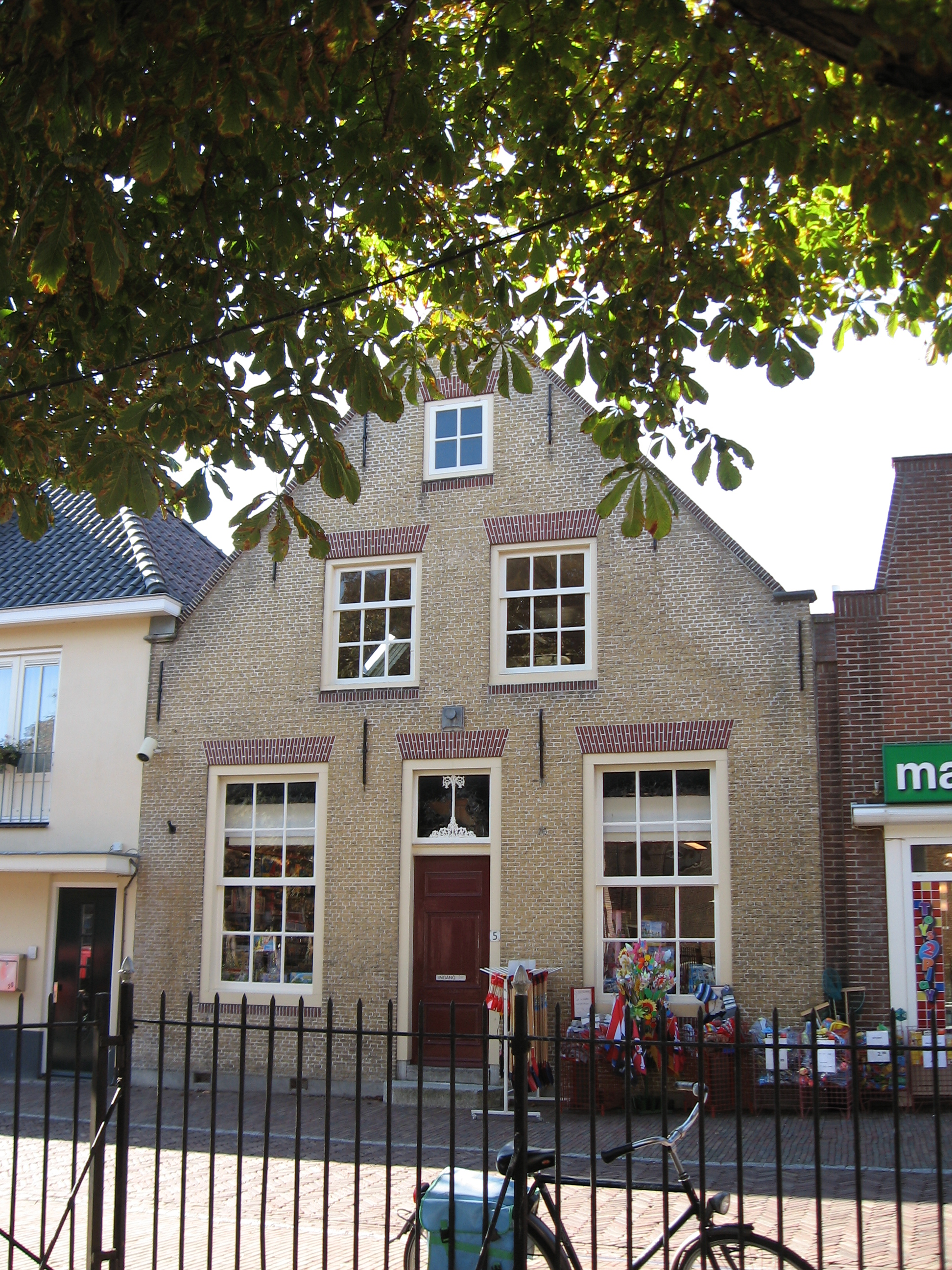 A monumental house at the Hoenderdijk 5 in Ouddorp, The Netherlands.